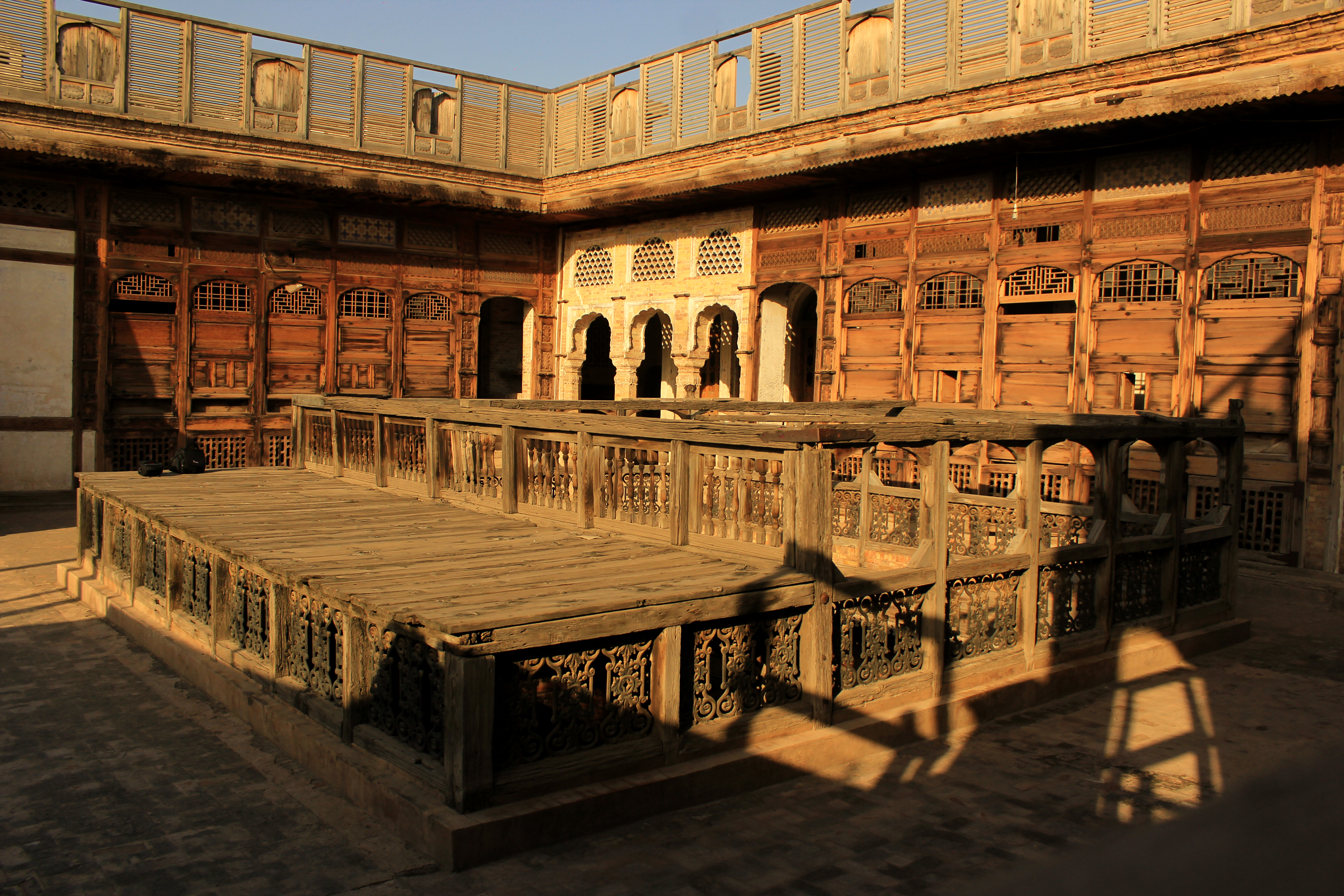 Sethi House Complex This is a photo of a monument in Pakistan identified as the KPK-61